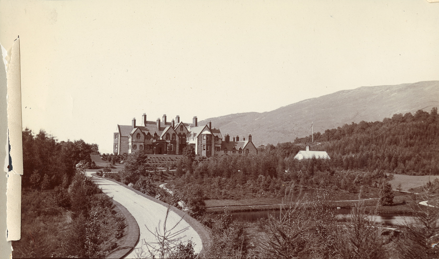 Lord Strathcona's estate, Glencoe, Scotland, 1905 Image Number: FUT2_062-005_P Description: Lord Strathcona's residence and estate in Glencoe, Scotland. This photograph was taken during Gwendolen Marjorie Howard's 1905 spring and summer trip to Britain. The label for the photograph identifies the residence as the "New House." Lord Strathcona purchased the estate and constructed the house in 1890s. The fifth photograph of Page 62, Album 2 of the Marjorie Howard Futcher Albums Collection.